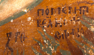 Saint Petra Church inCrešnevo Fresco 1601